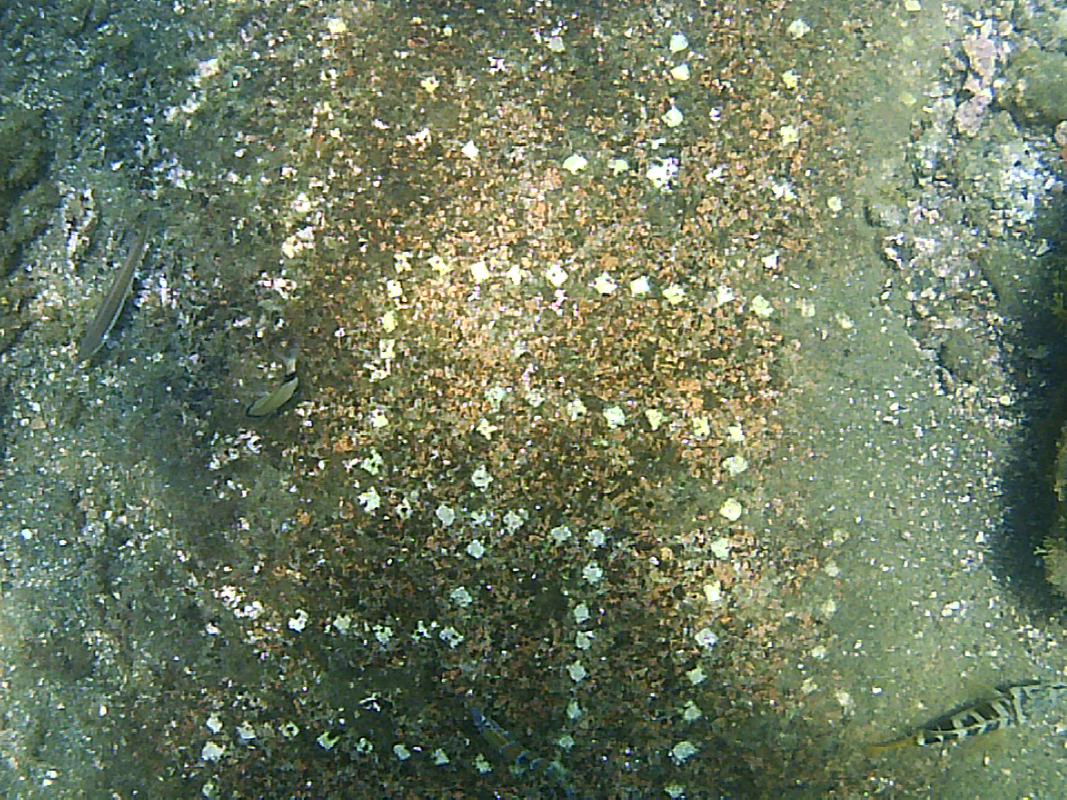 Portus Julius' mosaic. Underwater Archaeological Park of Baiae